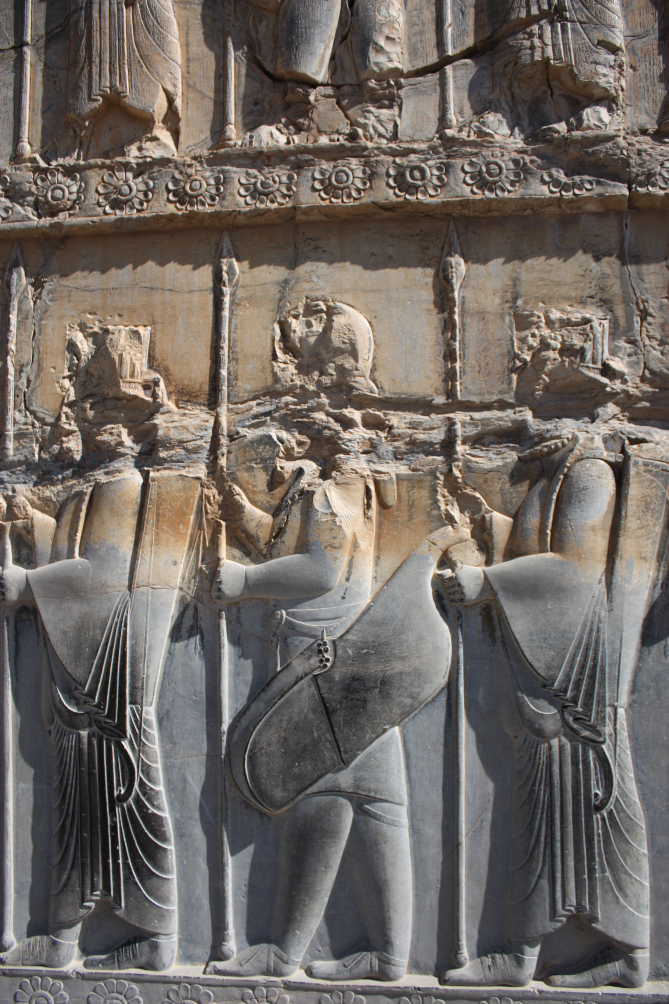 Persepolis in Shiraz